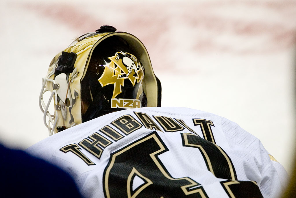 Jocelyn Thibault.Pittsburgh Penguins vs. San Jose Sharks